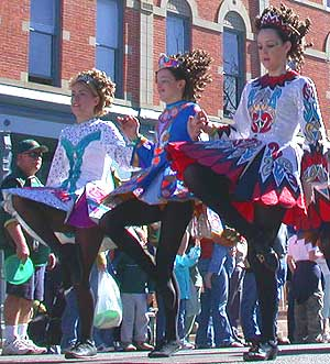 Girls performing Irish step dancing in a St. Patrick's Day Parade in Fort Collins, Colorado.